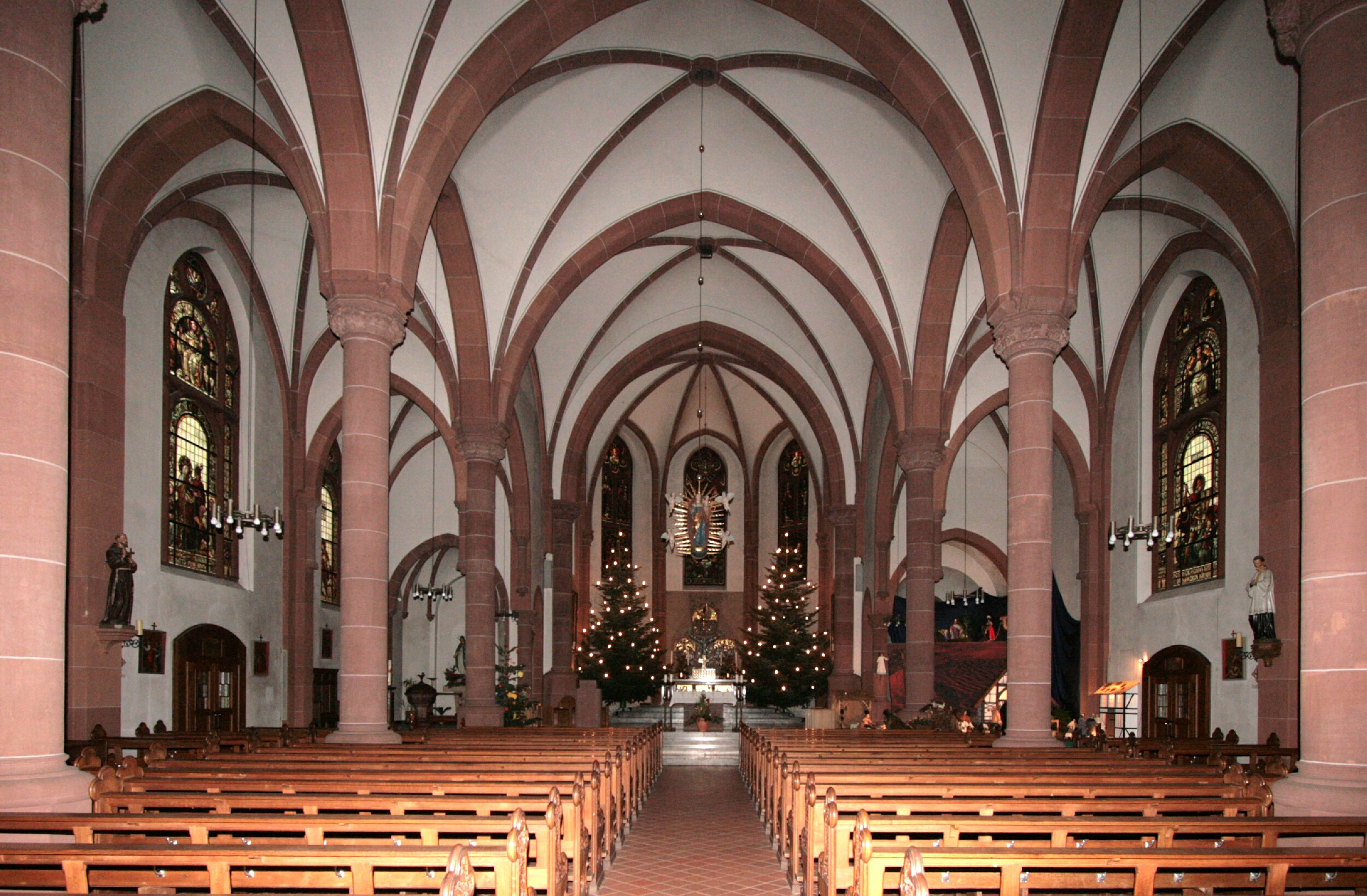 Old church’s sanctuary/Chorraum der alten Kirche